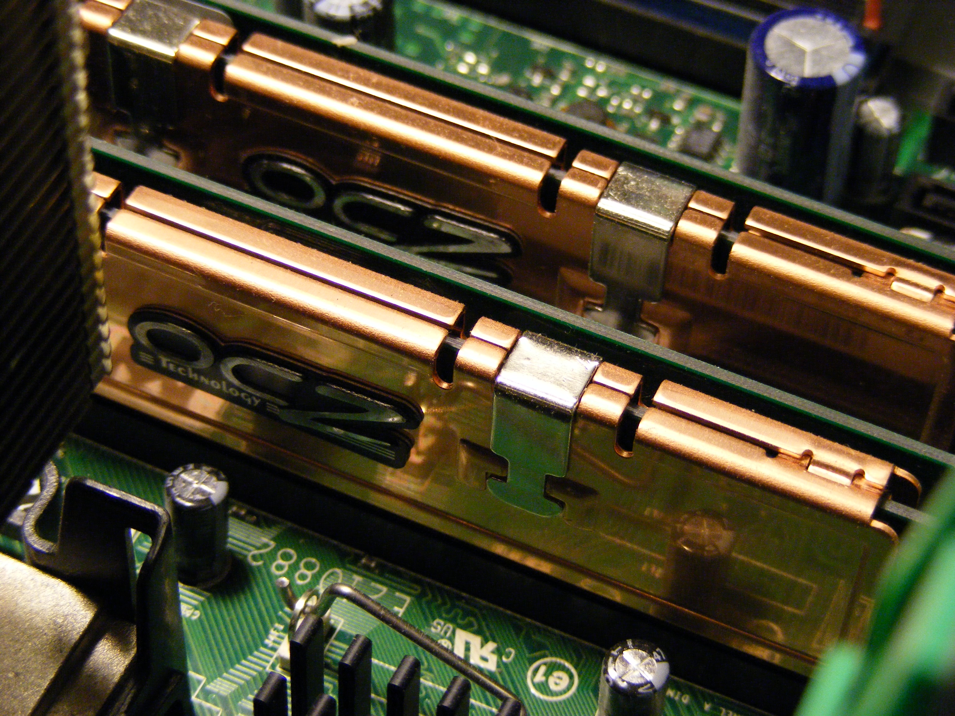 OCZ Technology RAM with head spreaders -- 2 x 1GB sticks; DDR2; 667MHz